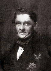 Peter von Meyendorff (1796–1863), Russian diplomat and from 1850 to 1854 ambassador in Vienna.